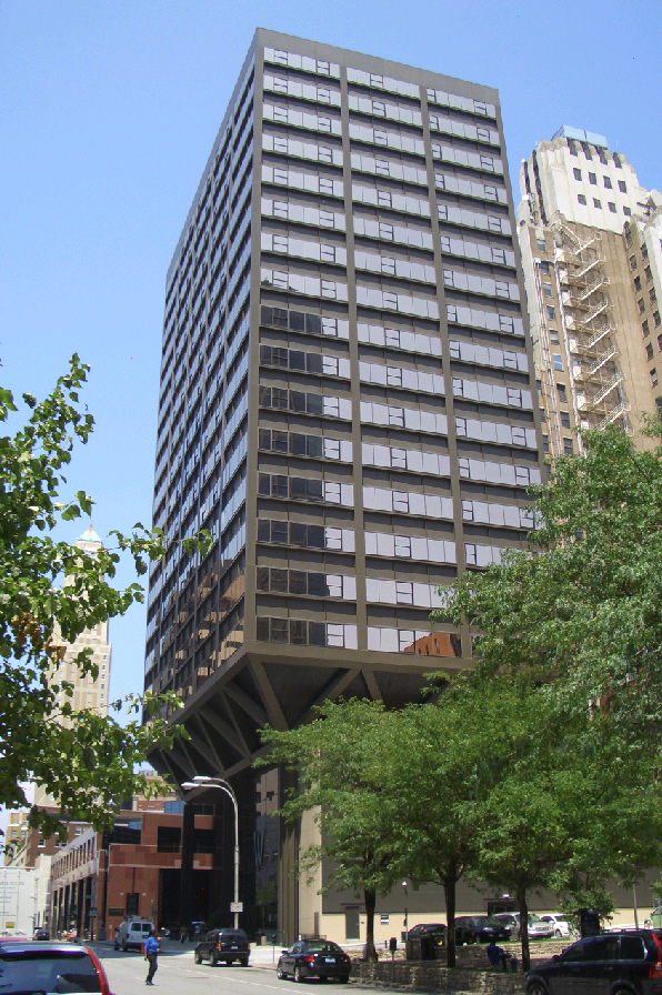 WallStreet Tower (former Mercantile Bank), Kansas City, Missouri